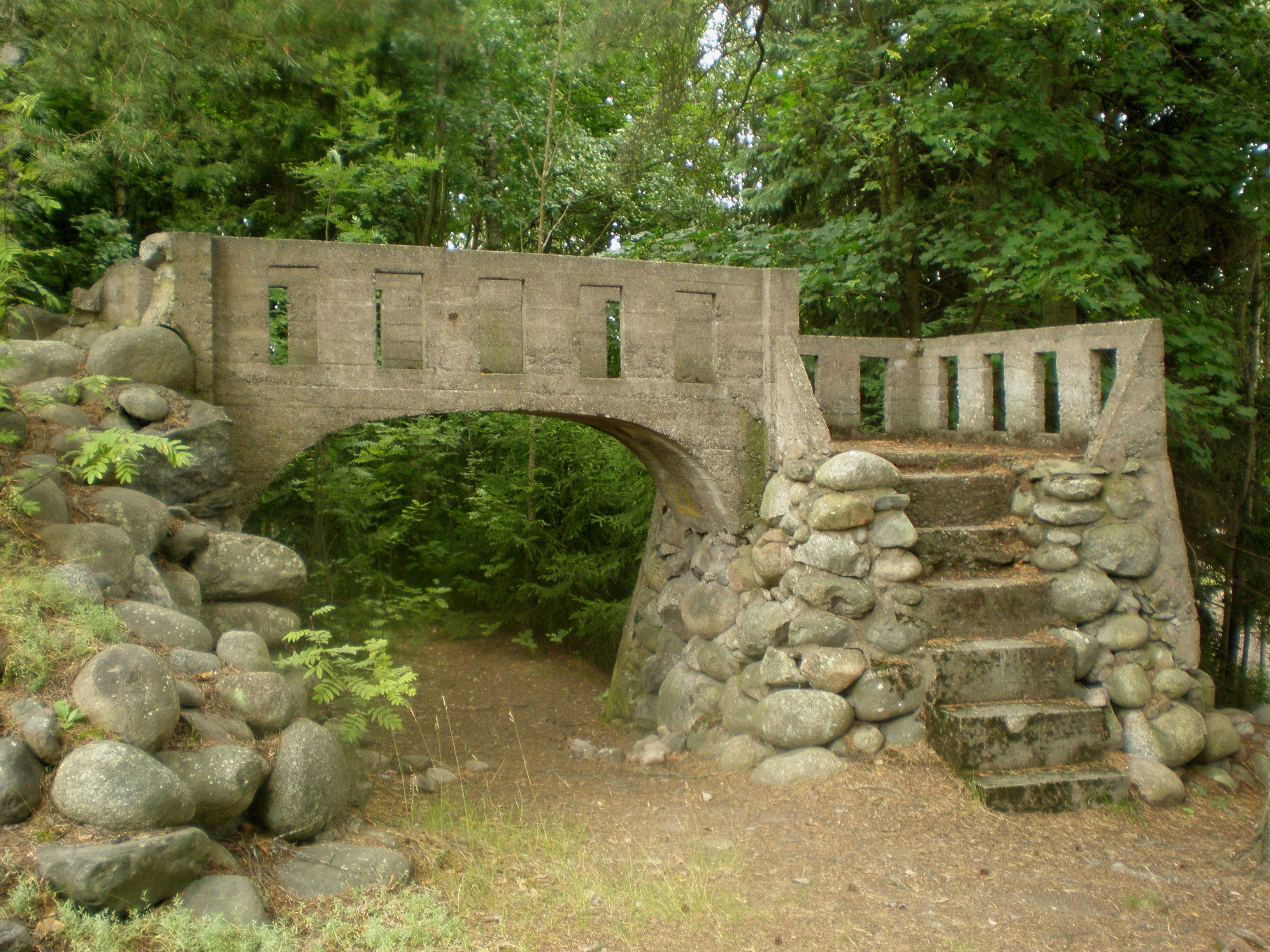 Gate of Epilän kylpylä